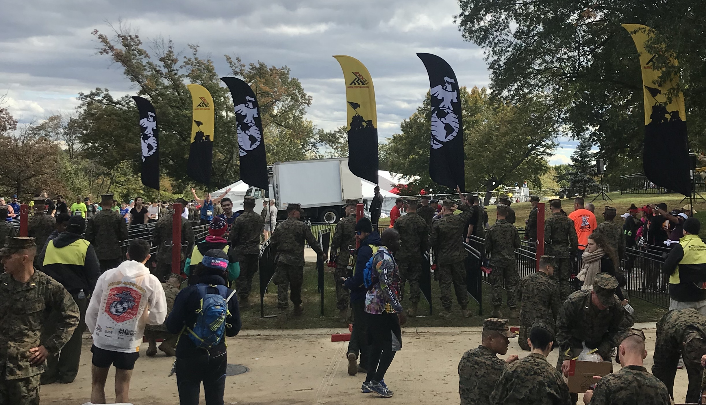 Picture of finish of 2018 Marine Corp Marathon where marines present runners with medals